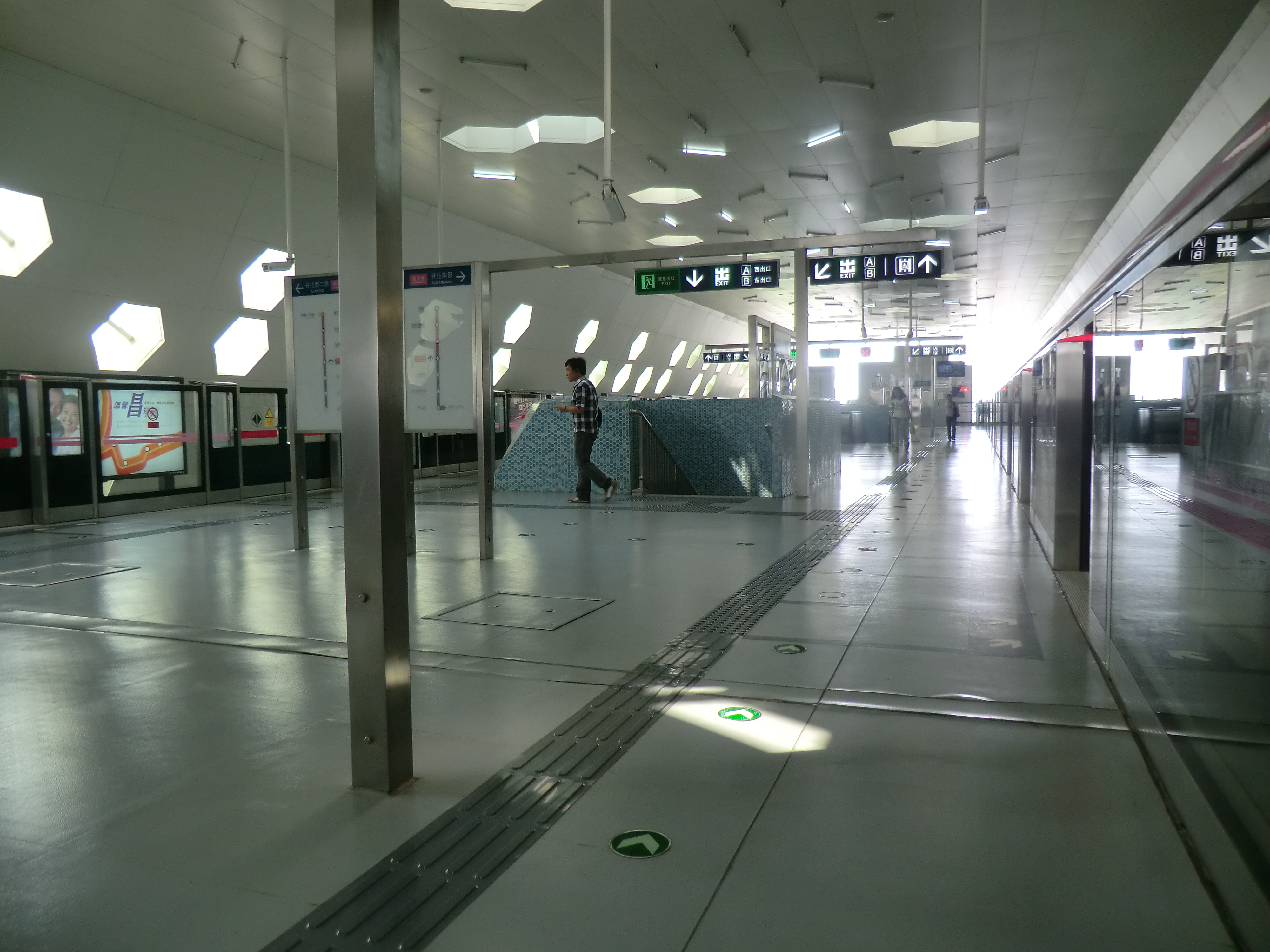 Beijing Subway, Changping Line, Gonghuacheng station